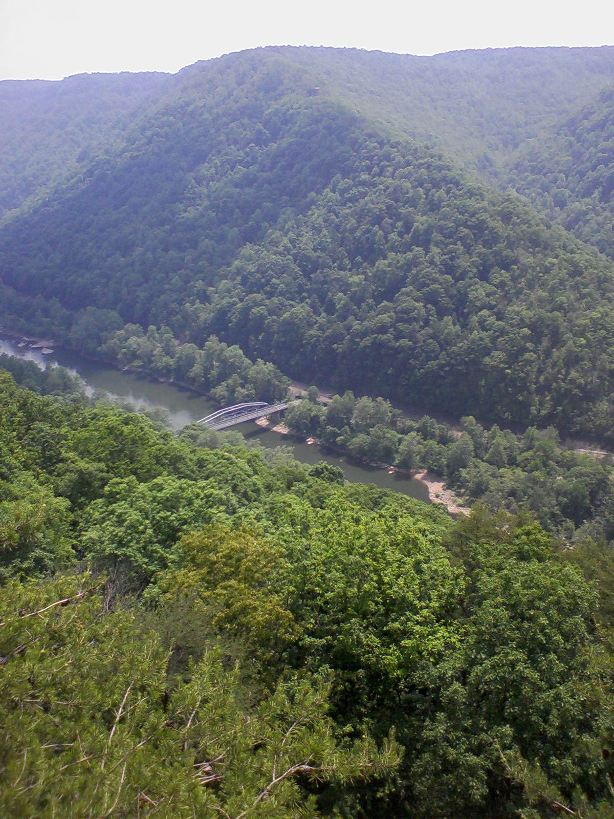 A view down the New River Gorge at the old method of crossing, before the New River Gorge Bridge was built.